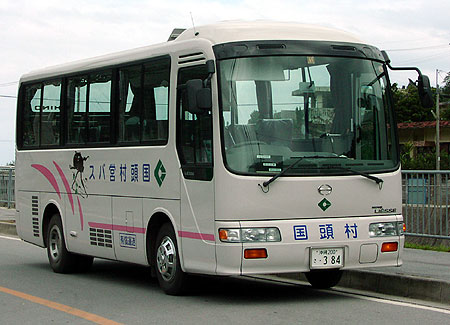 Kunigami Village Bus